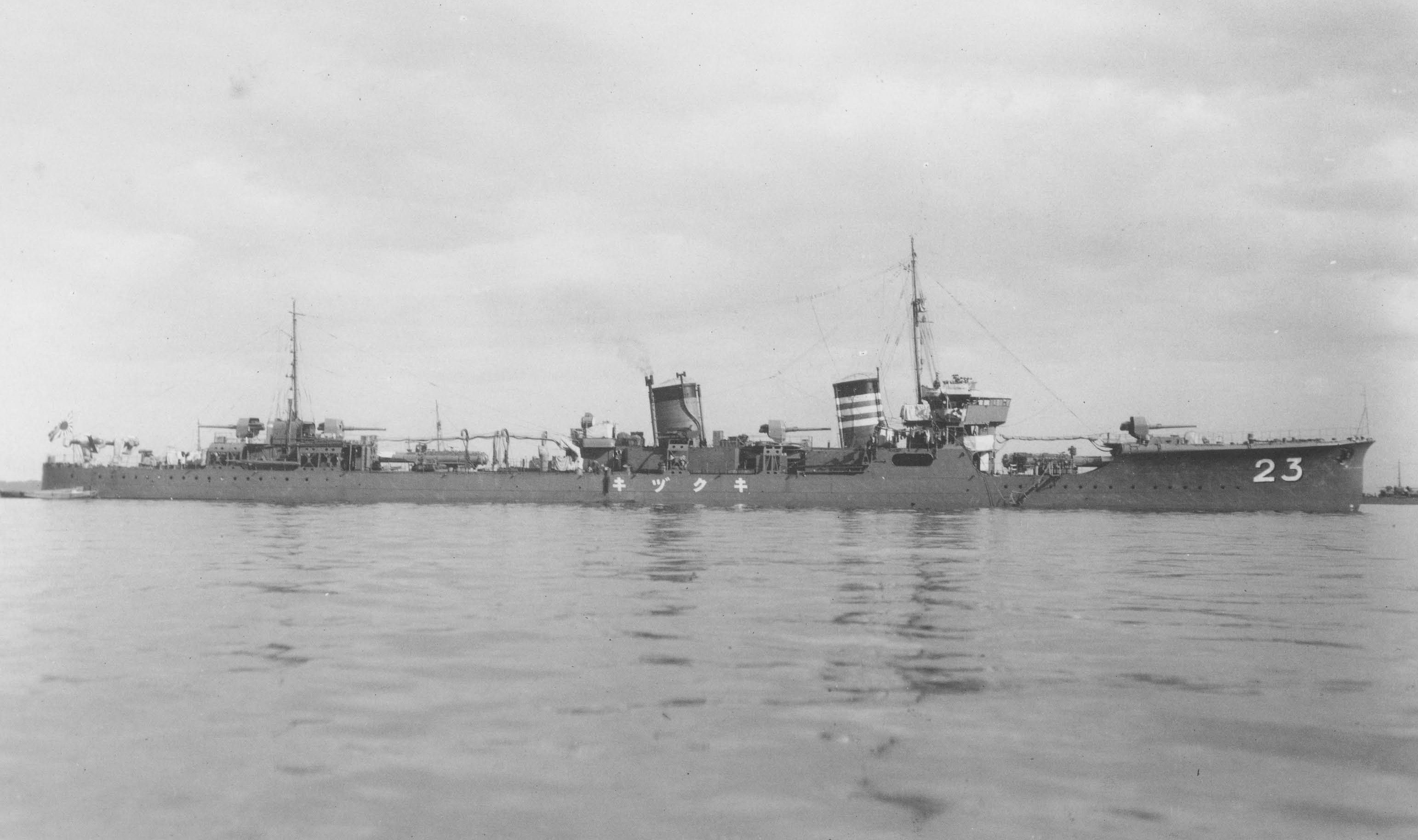 Imperial Japanese Navy destroyer Kikuzuki, the second Japanese warship to bear that name.